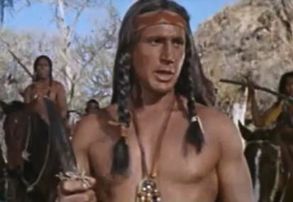 Armando Silvestre in The Scalphunters - trailer (cropped screenshot)